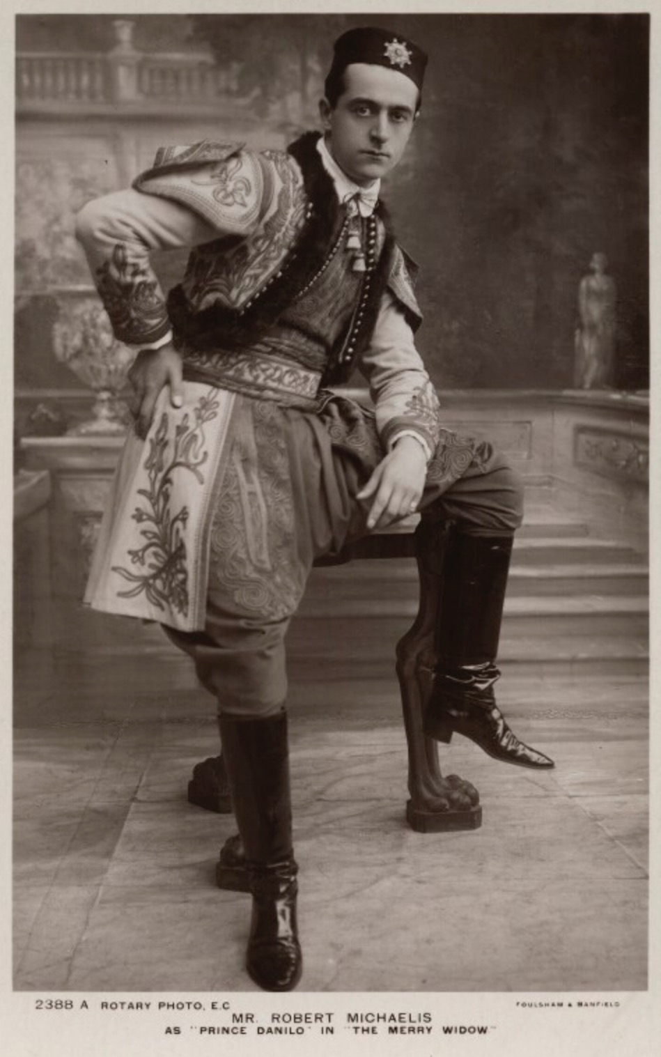 Robert Michaelis as Prince Danilo in *The Merry Widow*, Daly's Theatre, London, 1908